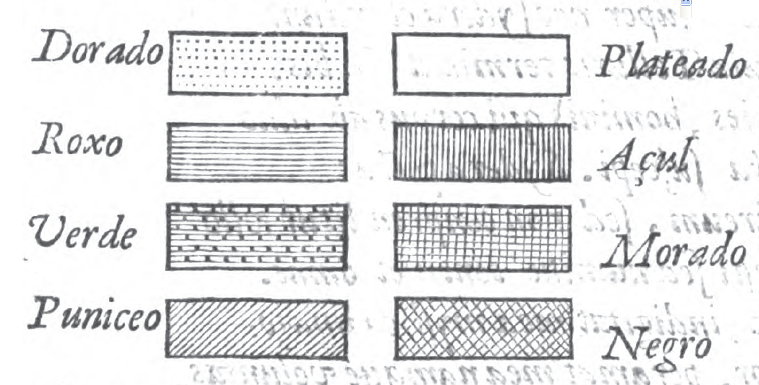 The detail of hatching table of Caramuel Lobkowitz